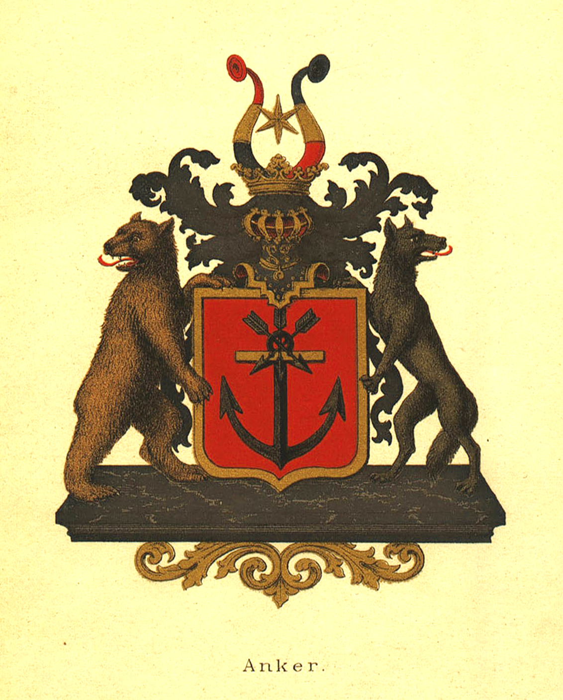 Arms of the Norwegian Anker family, granted by patent of nobility 1778. Illustration from Anker, C. J.: Stamtavle over familien Anker, Kristiania 1889.